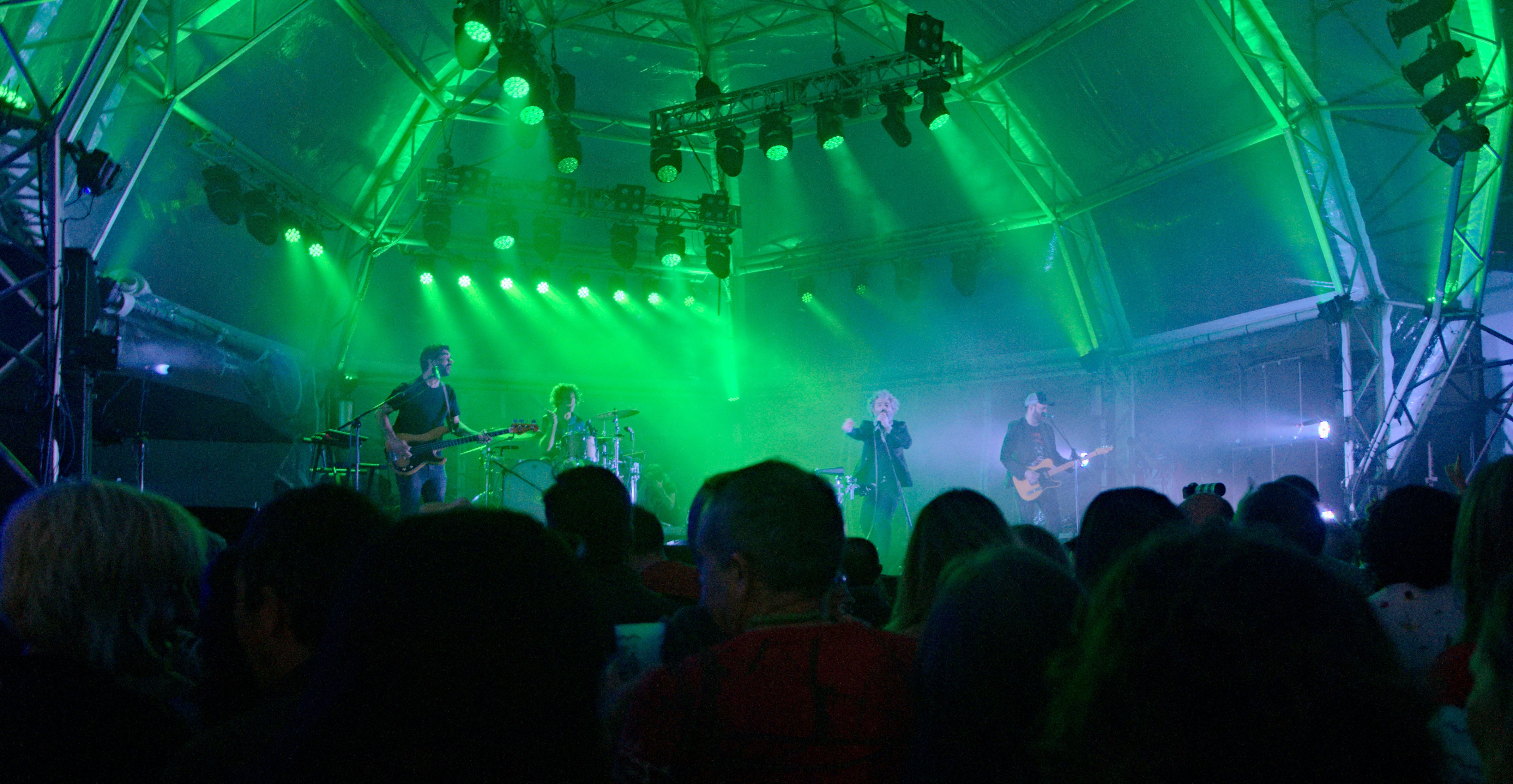 León Benavente at the Festival de Música Sonidos Líquidos of 2017 in La Geria, Lanzarote.